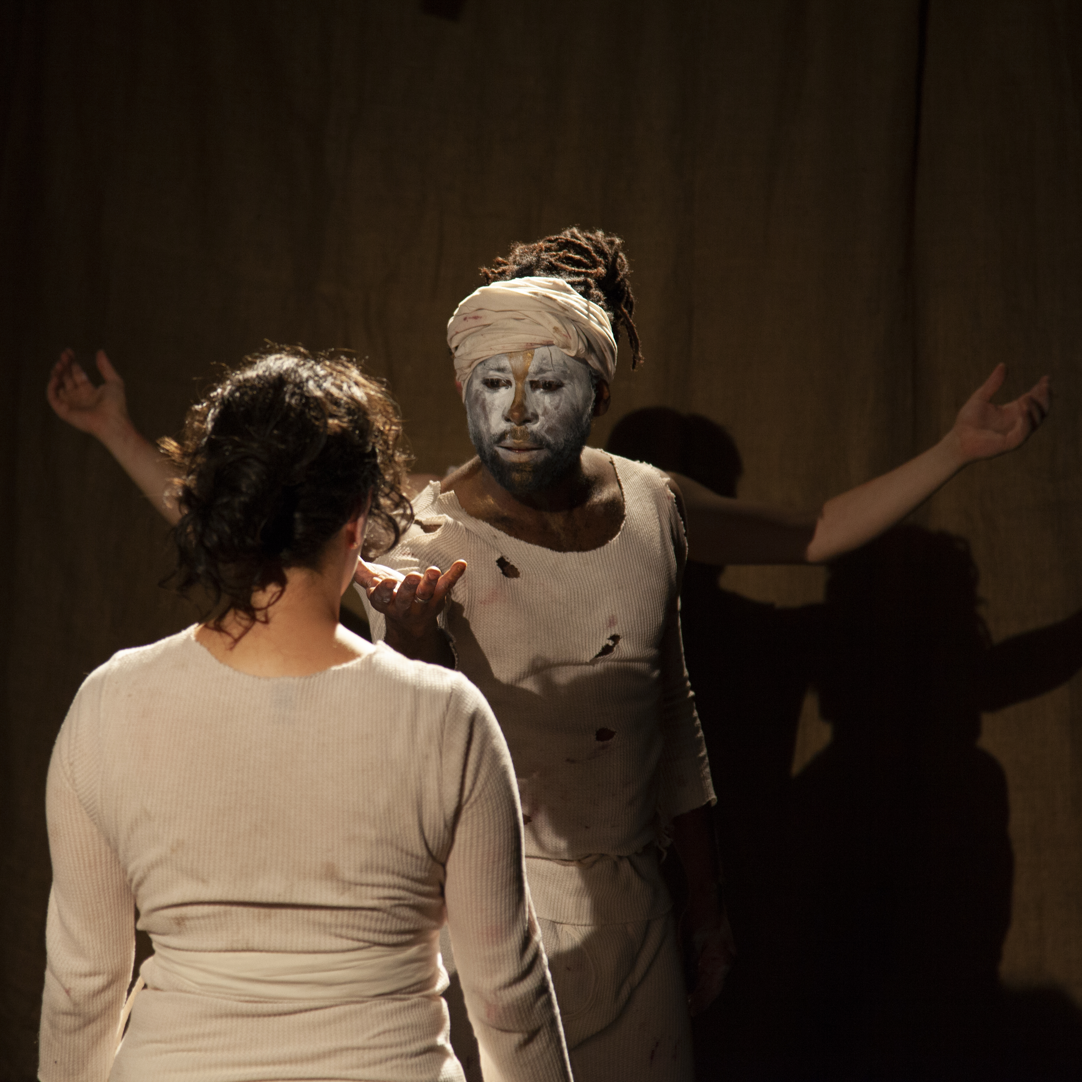 produced by Stairwell Theater